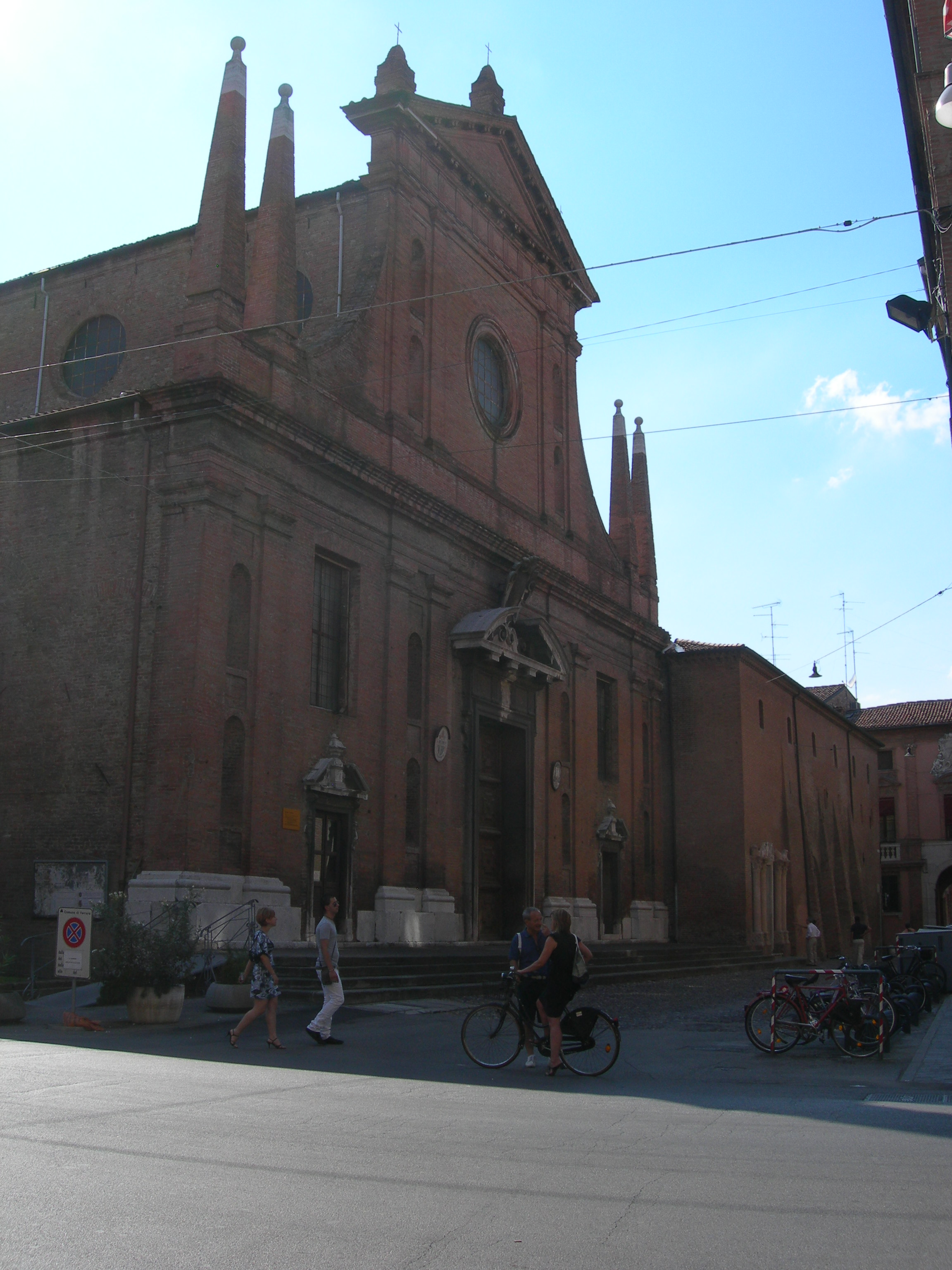 St. Paolo Church